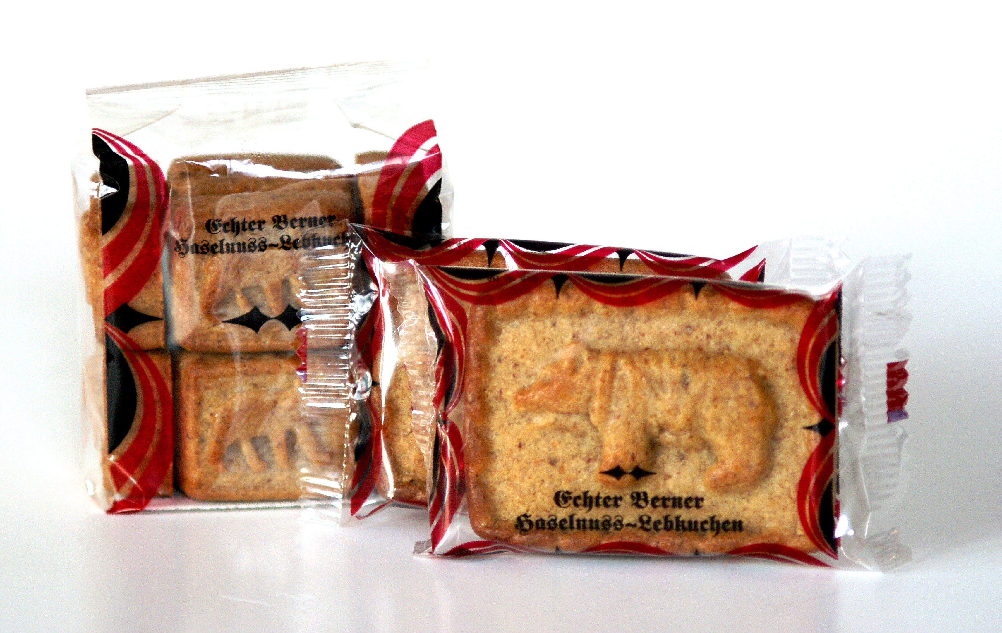 Berner Haselnussleckerli (Haselnusslebkuchen), a traditional sweet from the canton of Berne, Switzerland.